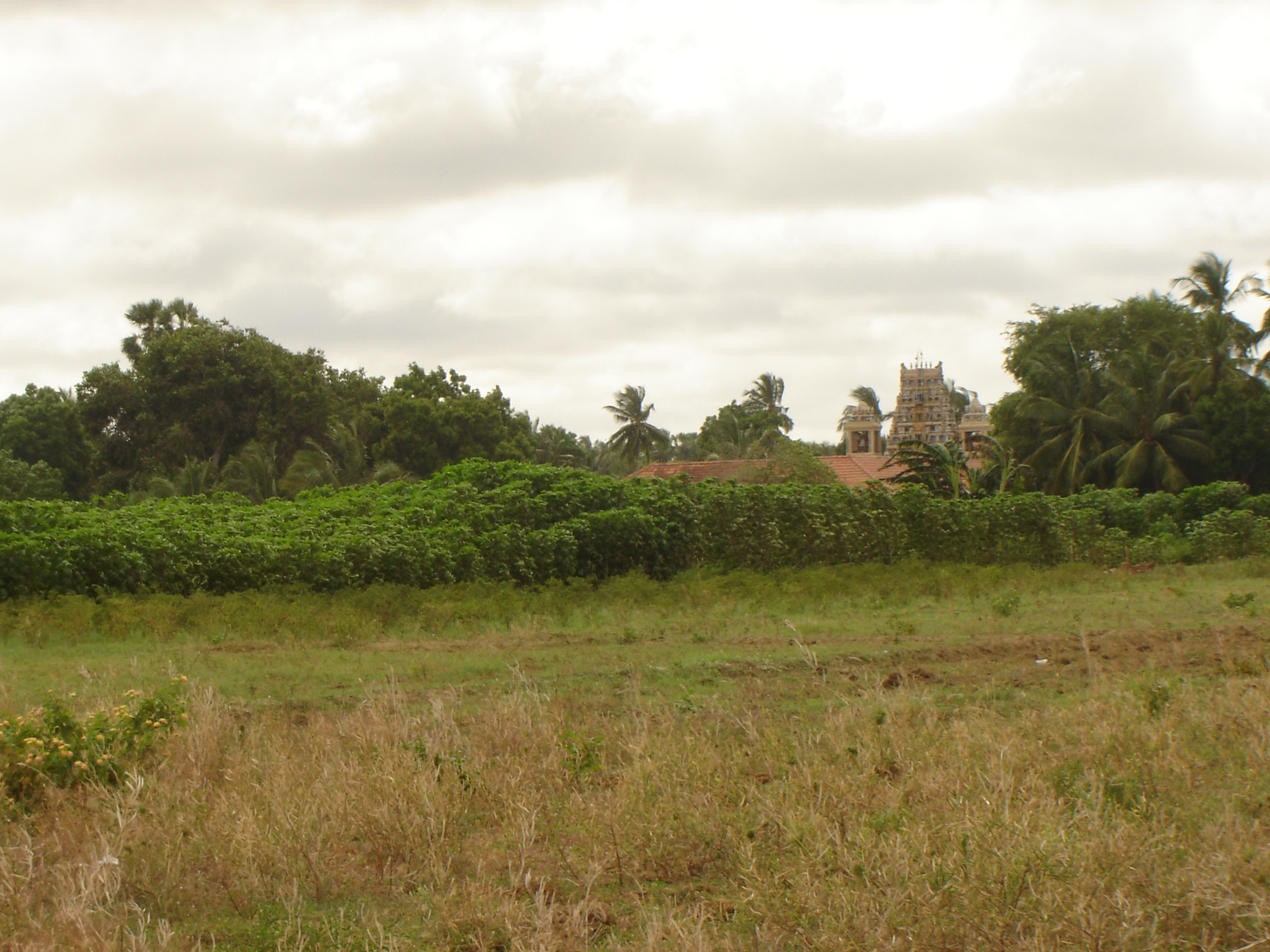 This is Piranpattu Periyavalavu Murugamoorthy temple's Back view.